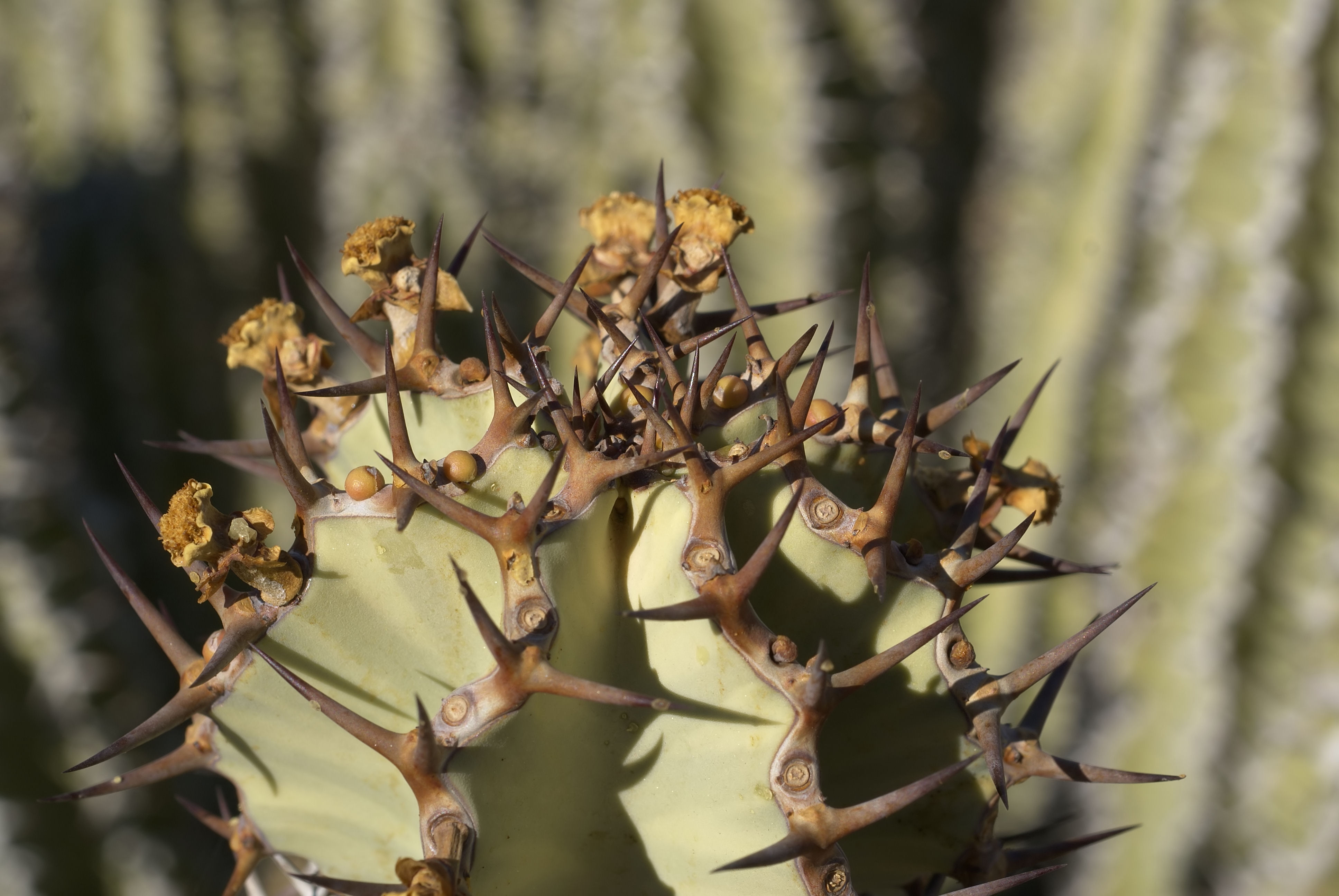 Inflorescences of a "Gifboom", i.e. "poison tree", near the Kuiseb Valley, Namib-Naukluft, Namibia